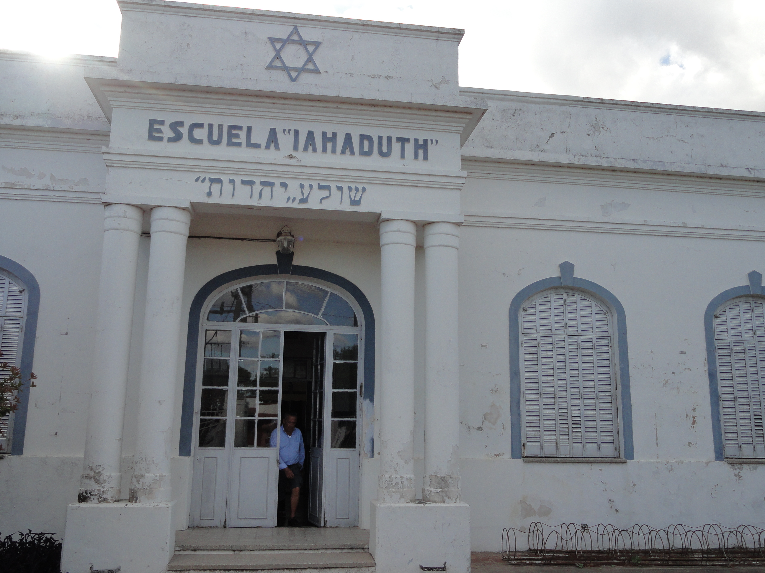 The school of the Jewish colony of Moisés Ville in Argentina